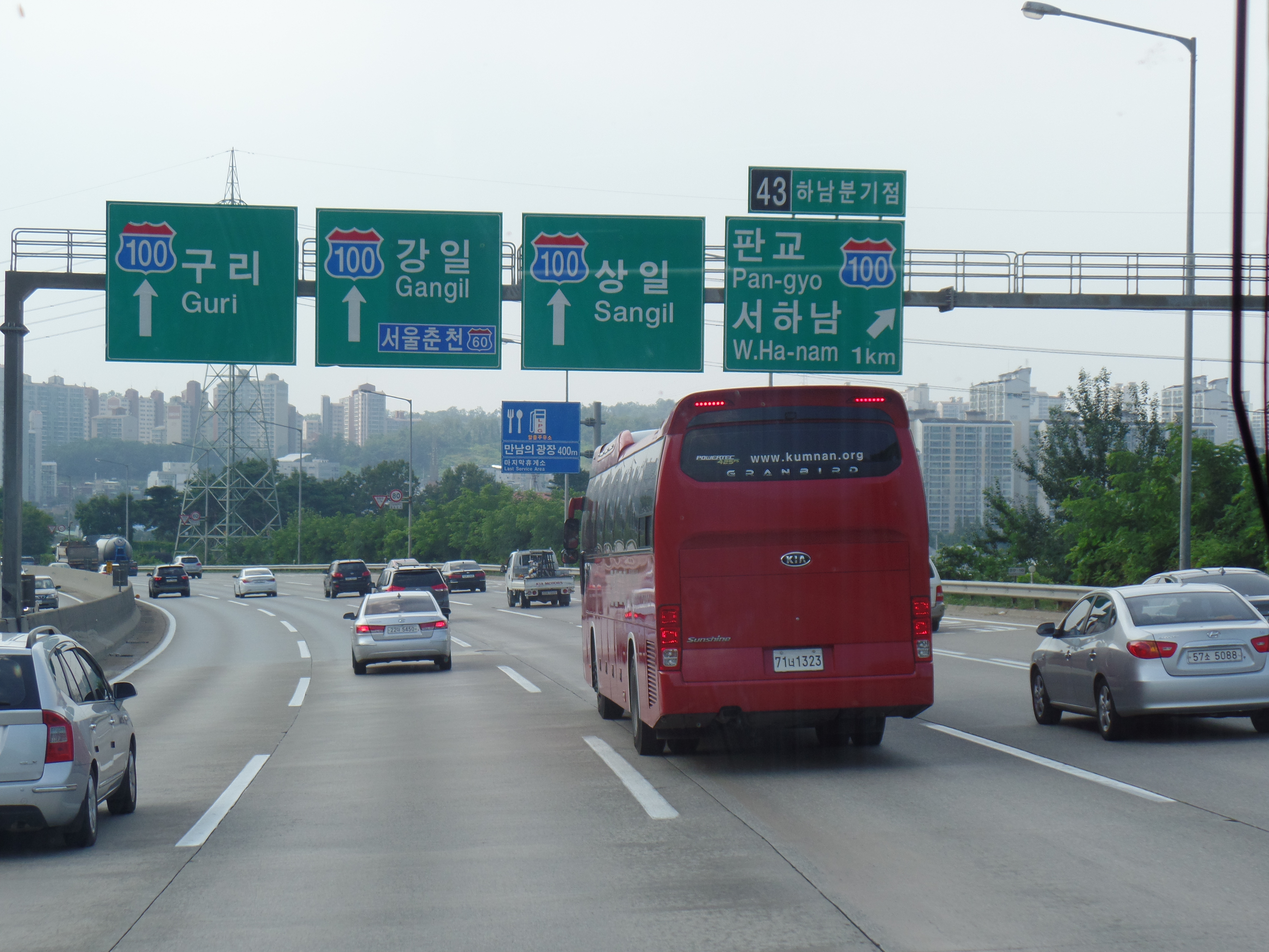 Jungbu Expressway Hanam Junction 1km Ahead(Hanam Direction)